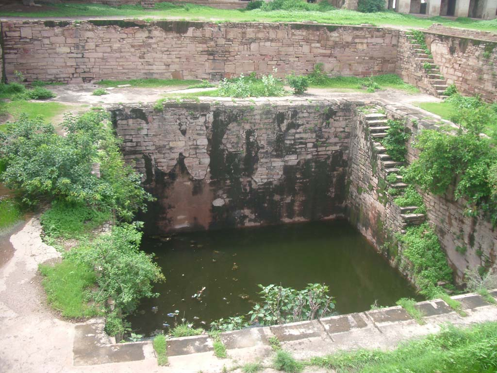 Gwalior fort water pool